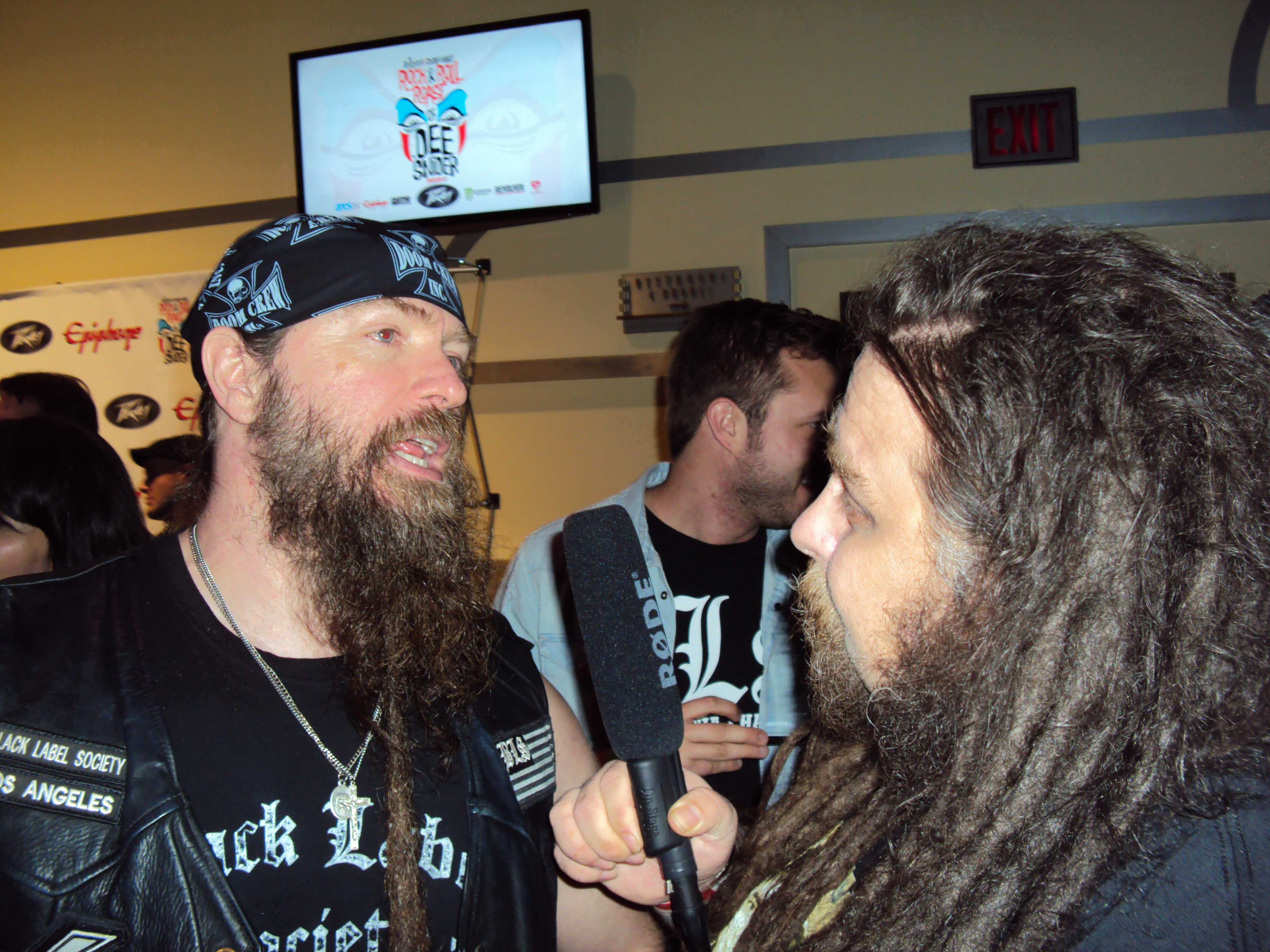 Thom Hazaert interviews Zakk Wylde on the Red Carpet of the REVOLVER/GUITAR WORLD Roast of Dee Snider, 1/24/2013.